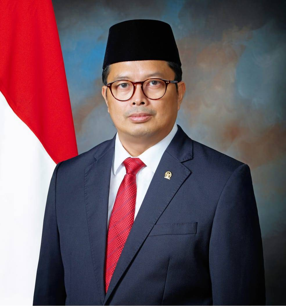 Mahyudin, Deputy Speaker of the Regional Representative Council of the Republic of Indonesia for the period 2019-2024.